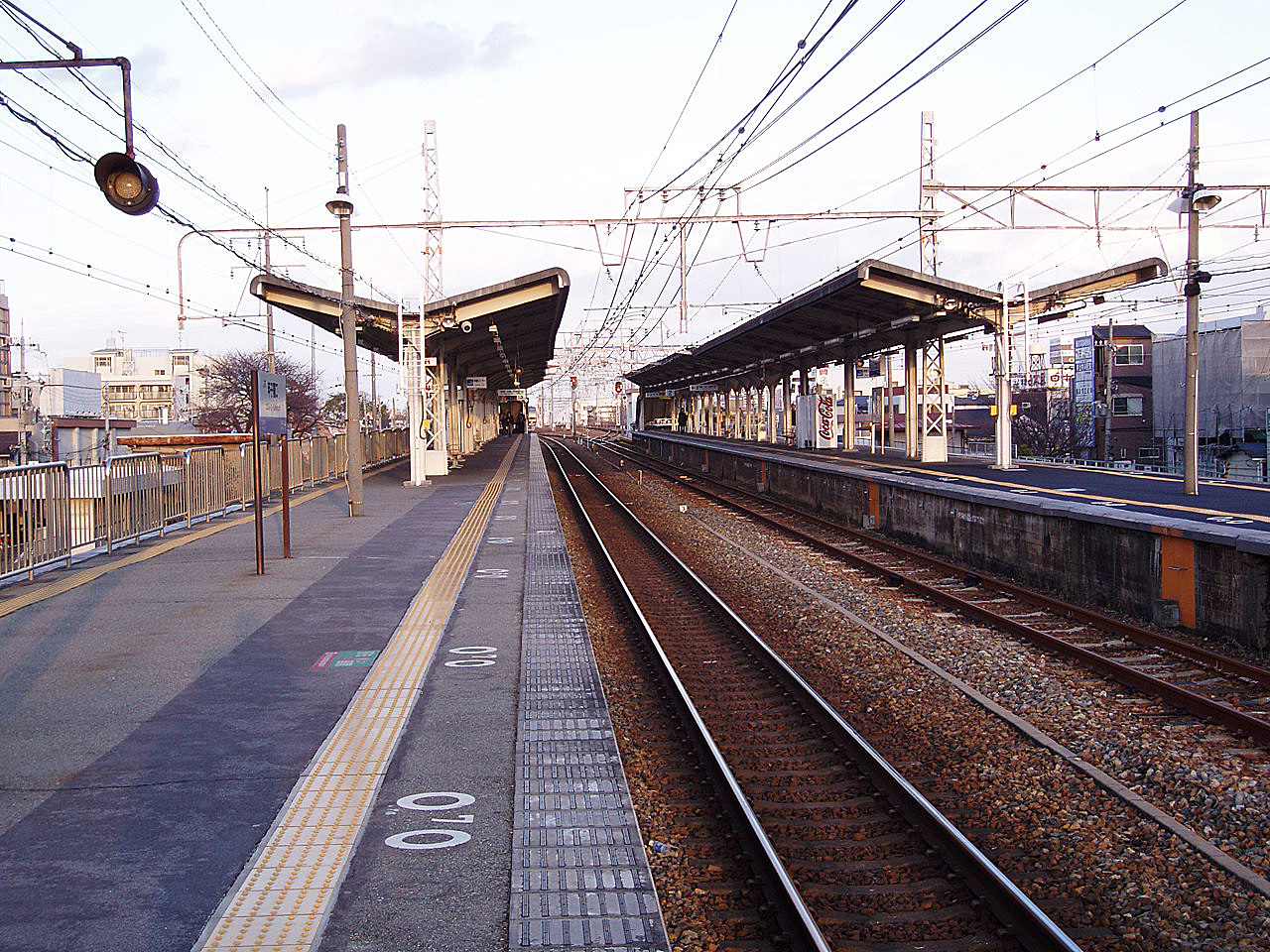 West Japan Railway Tōkaidō Main Line（JR Kōbe Line） Kōshienguchi Station Platform 西日本旅客鉄道 東海道本線（JR神戸線） 甲子園口駅駅ホーム